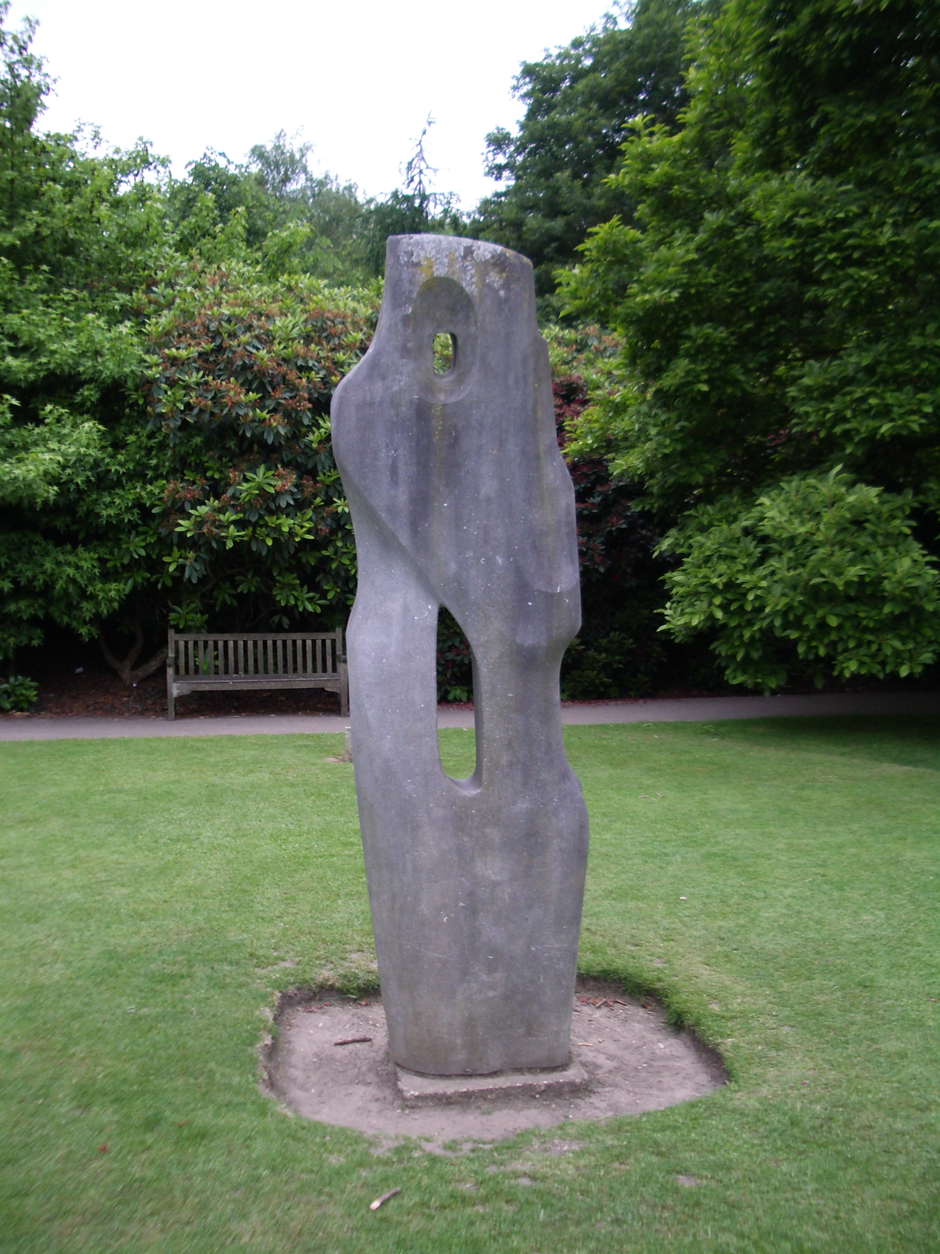 Barbara Hepworth Monolyth-Empyrean 1953 in Gardens of Kenwood House, London